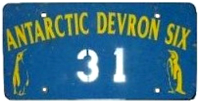 Antarktica_license_plate_devron_six_21